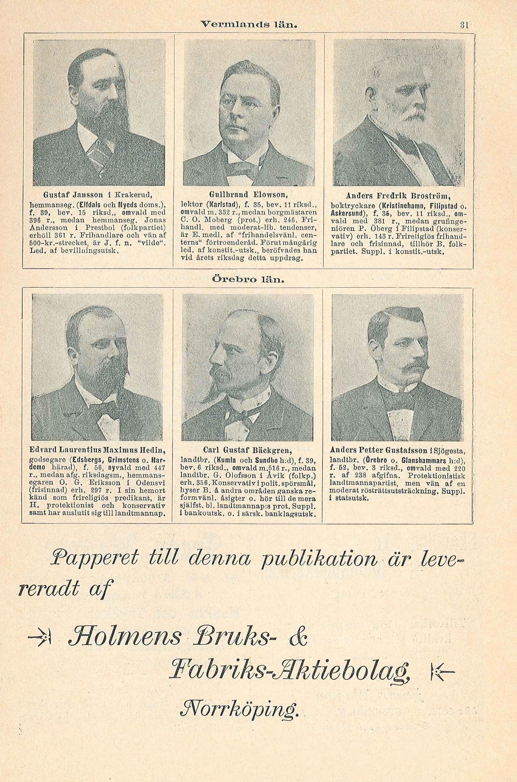 Page 31 of an album featuring portraits of all the members of the second chamber of the Swedish parliament (Sveriges riksdag) elected in 1897. This page featuring parts of the members representing the counties of Värmland and Örebro.